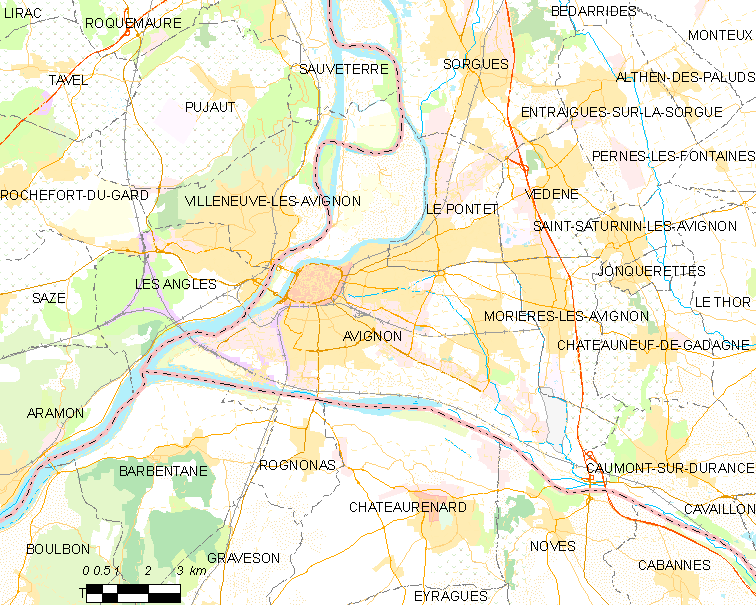 Map of French municipality Avignon